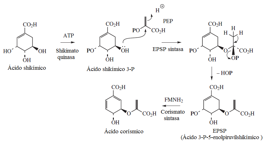 Chorismic acid biosynthesis scheme